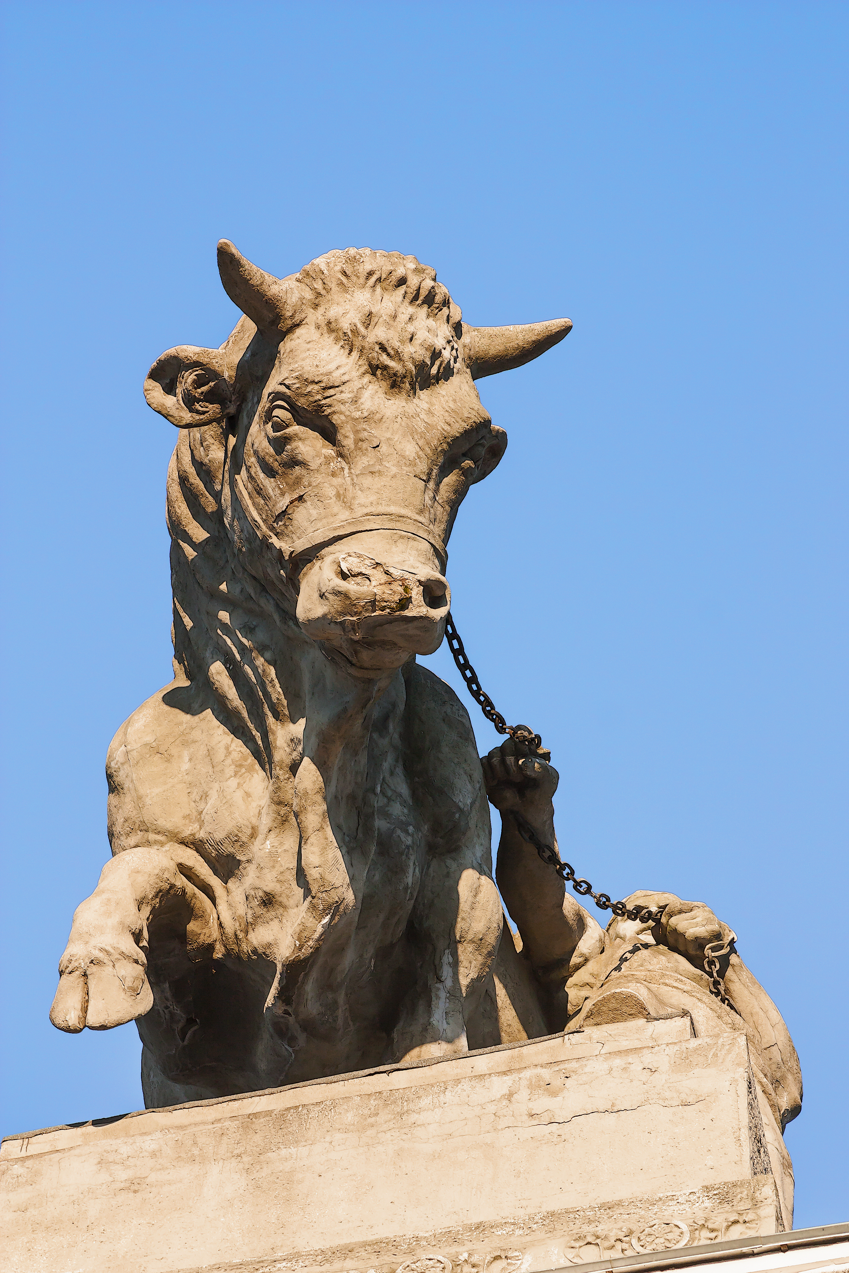 Meat industry pavilion (formerly Glavmyaso): Mira str., house 119, building 51, Ostankino North East district of Moscow